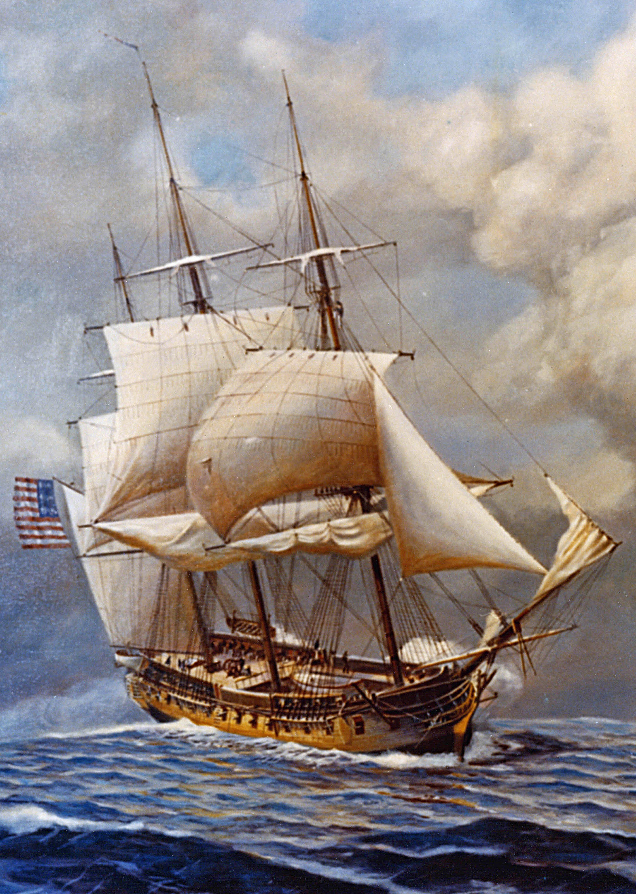 Cropped image of the Constellation from original painting.